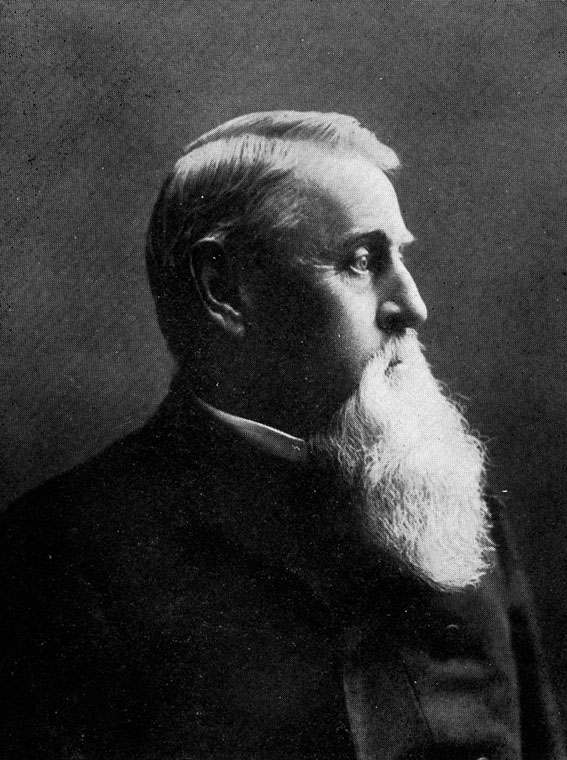 Side profile view of Capt. Cameron Erskine Thom, Mayor of Los Angeles from 1881-1884.